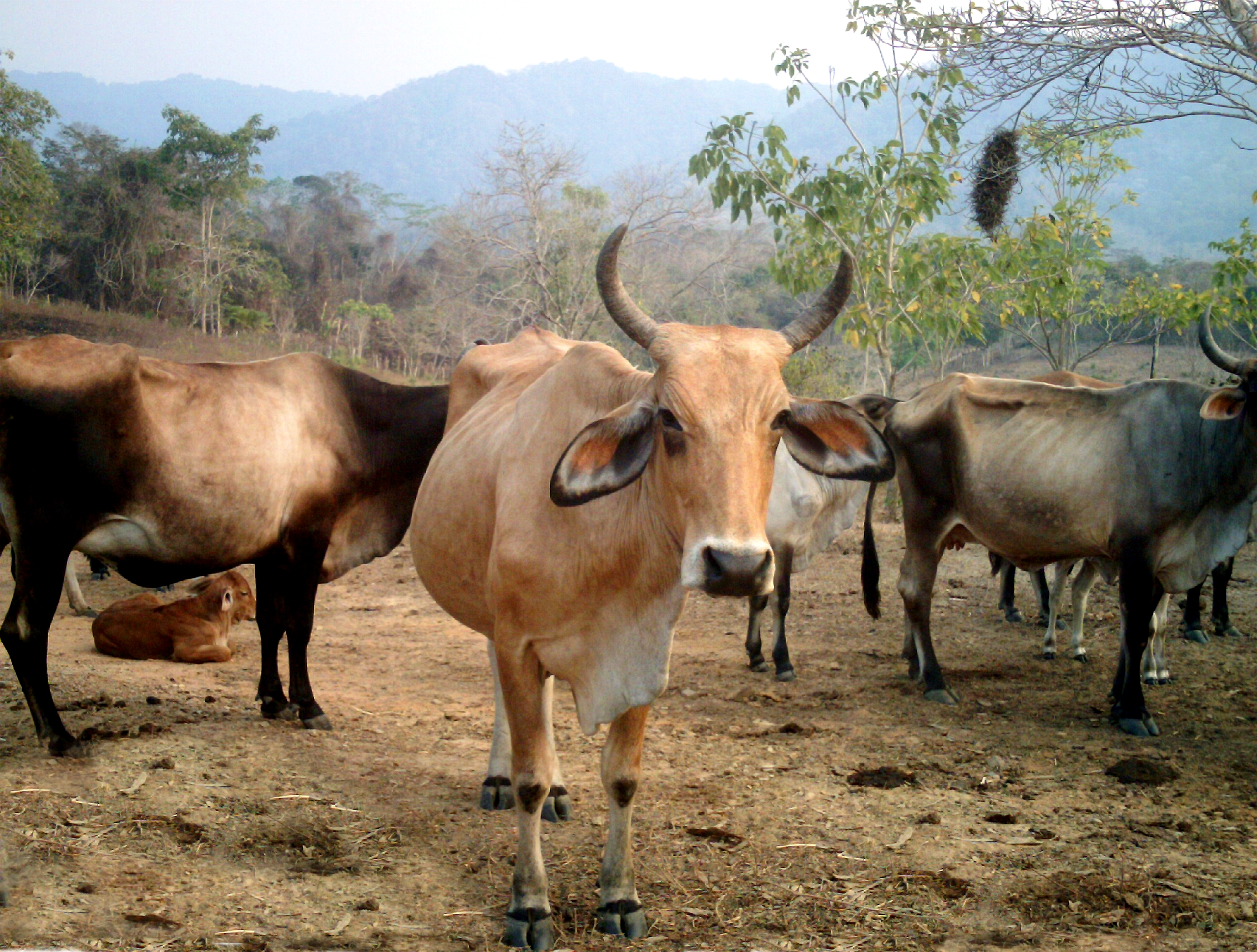 Cattle, Chaguaramal, Anzoategui State, Venezuela.